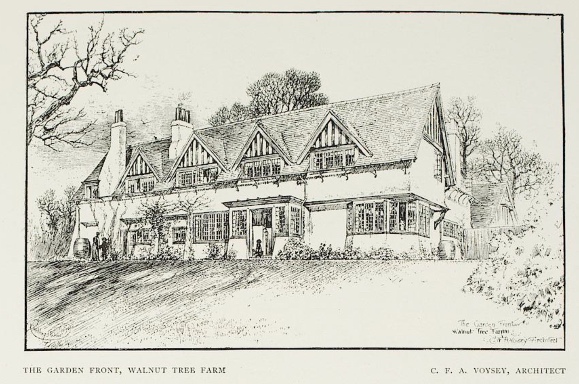 From The Studio, International Art Magazine. 1897